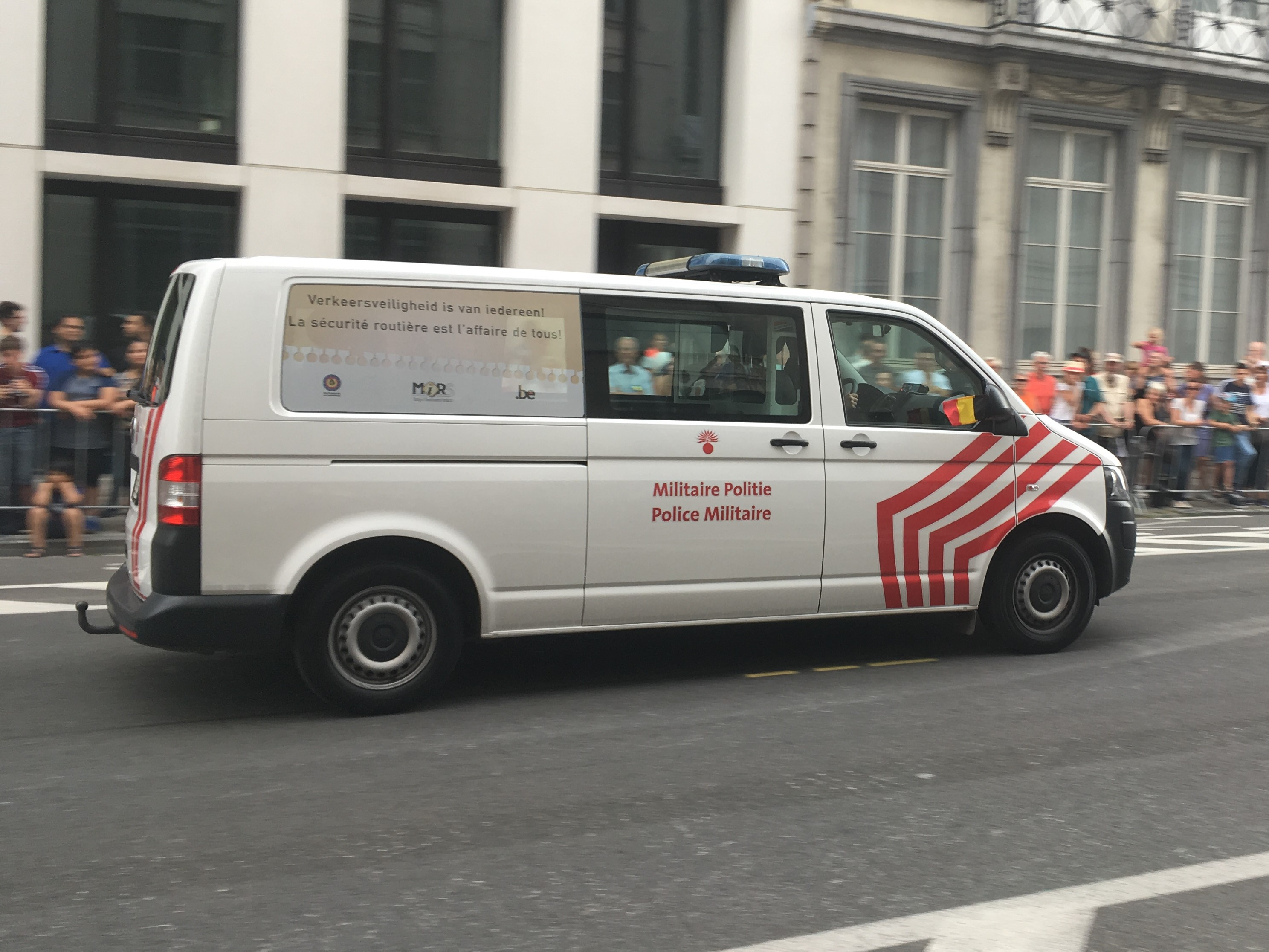 Volkswagen Transporter of the Belgian Military Police during the National Parade on July 21, 2018